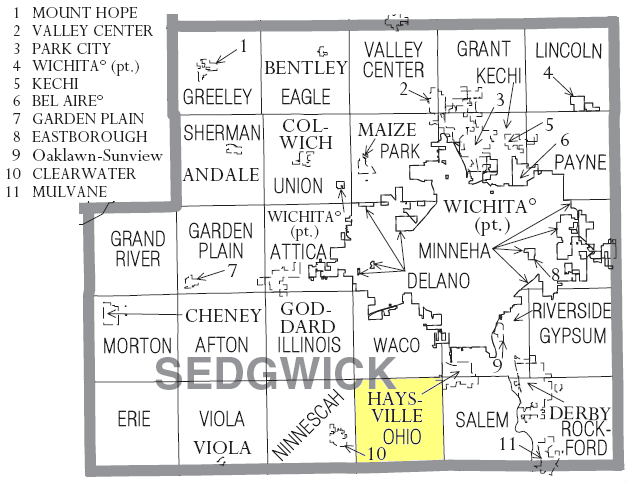 Map of Sedgwick County, Kansas highlighting Ohio Township